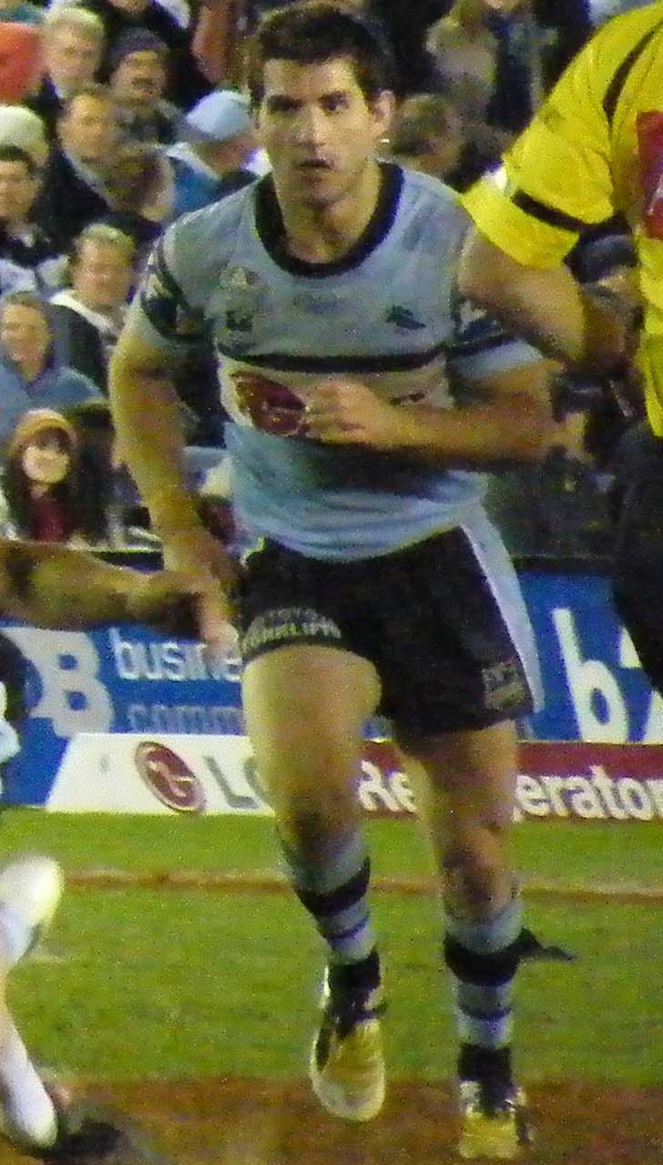 Lagi Setu pounces on Brett Kearney.